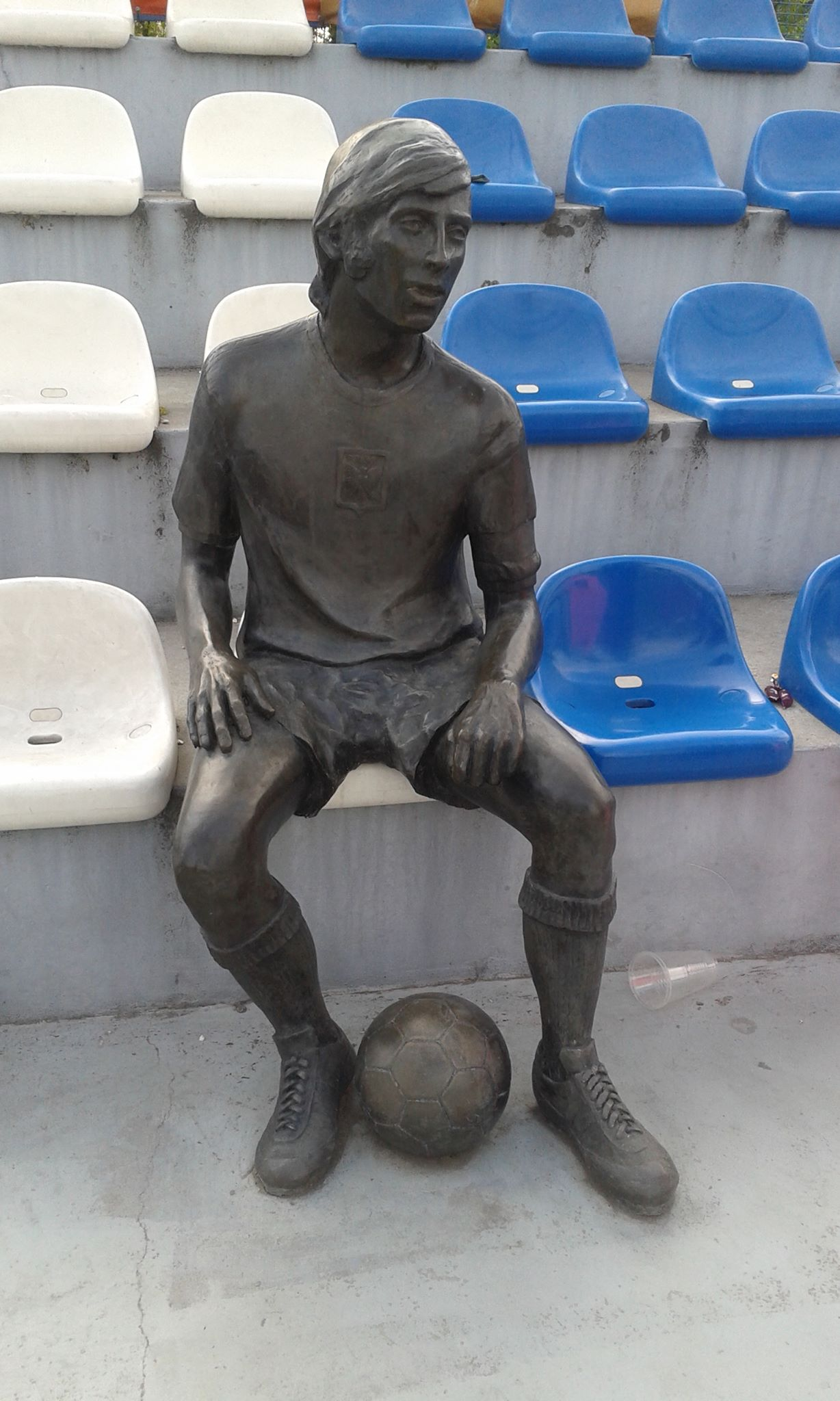 Kazimierz Deyna statue in Starogard Gdański